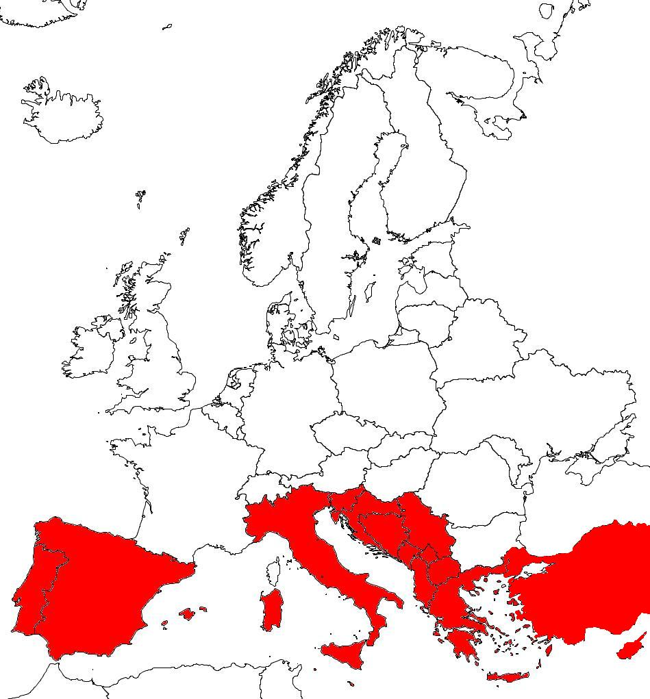 UN classification in sub-regions.